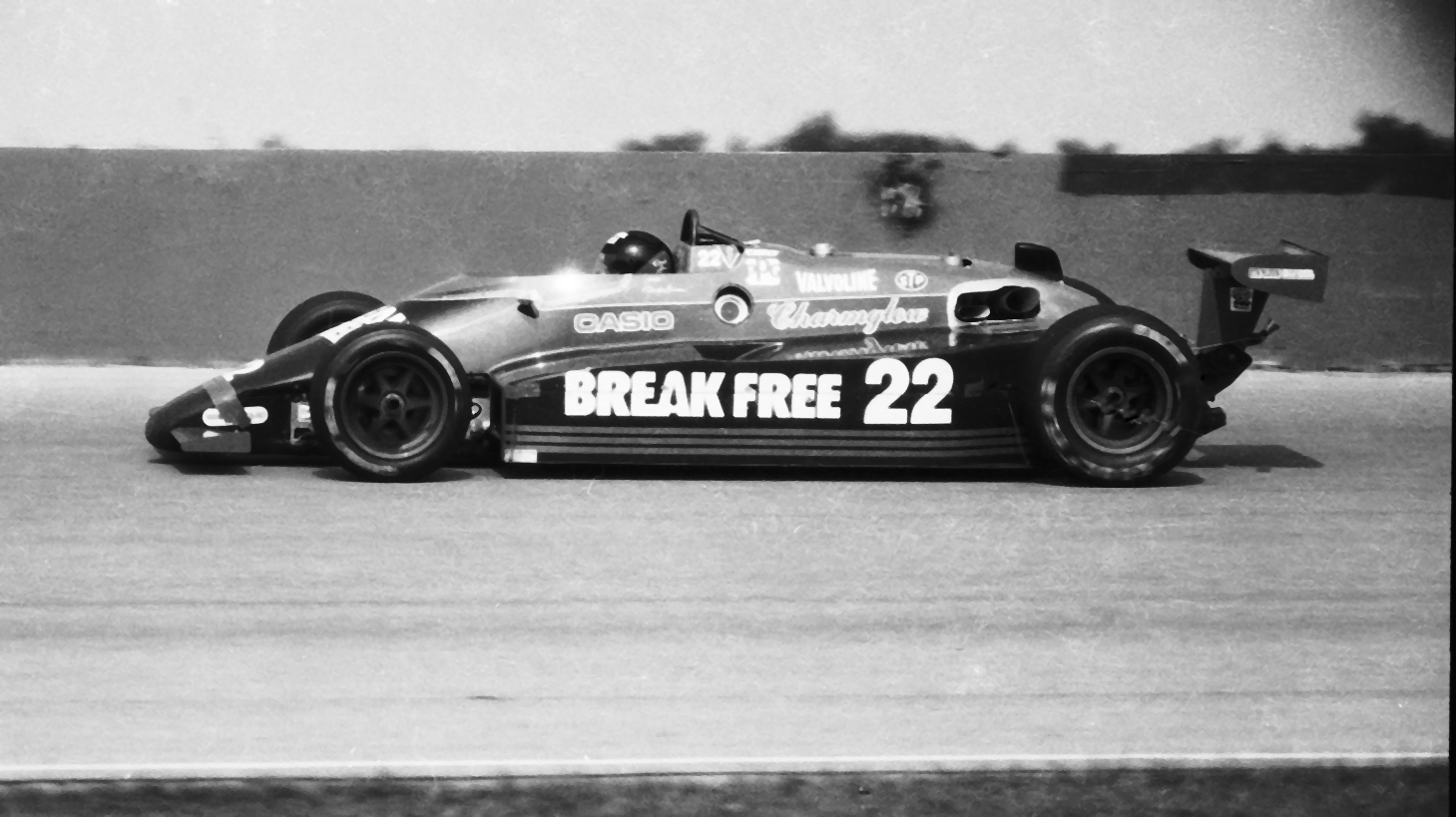 IndyCar driver Dick Simon racing at Pocono Raceway in 1984. Photos by Ted Van Pelt with Creative Commons License.